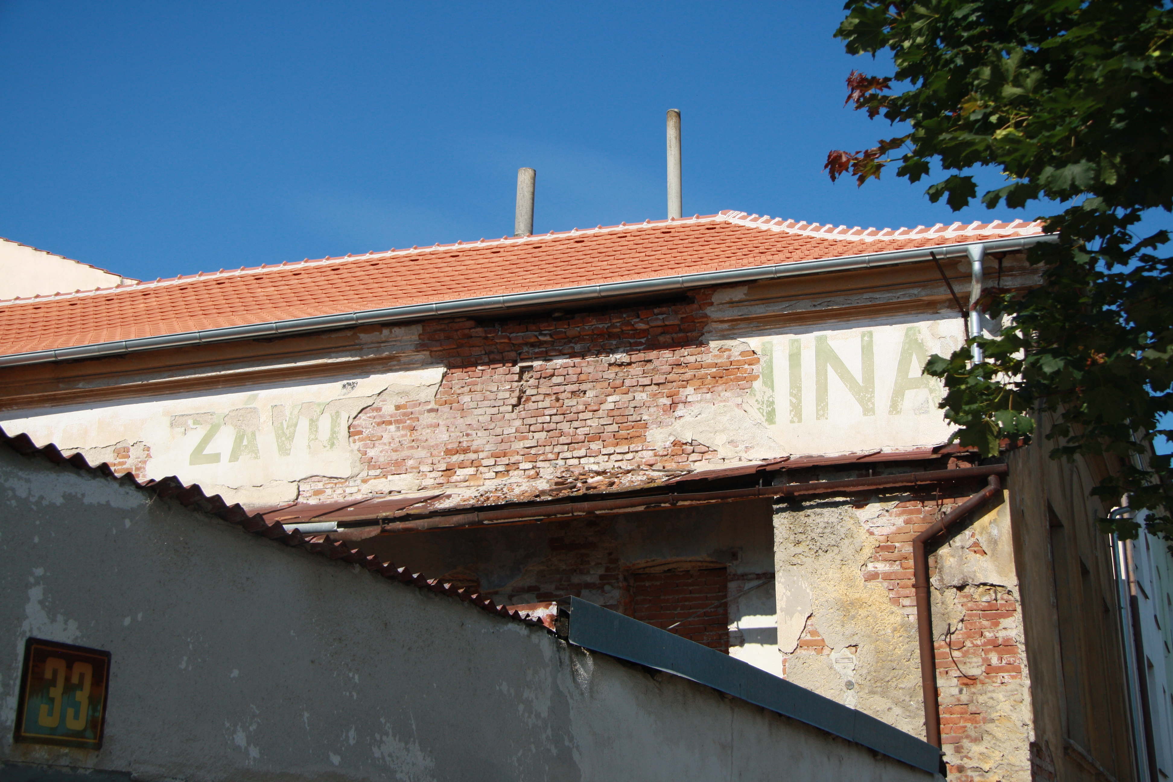 Former text of Company "Zelenina" in Havlíčkovo nábřeží 37, Třebíč, Třebíč District.